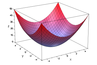 scalarfield x^2+y^2